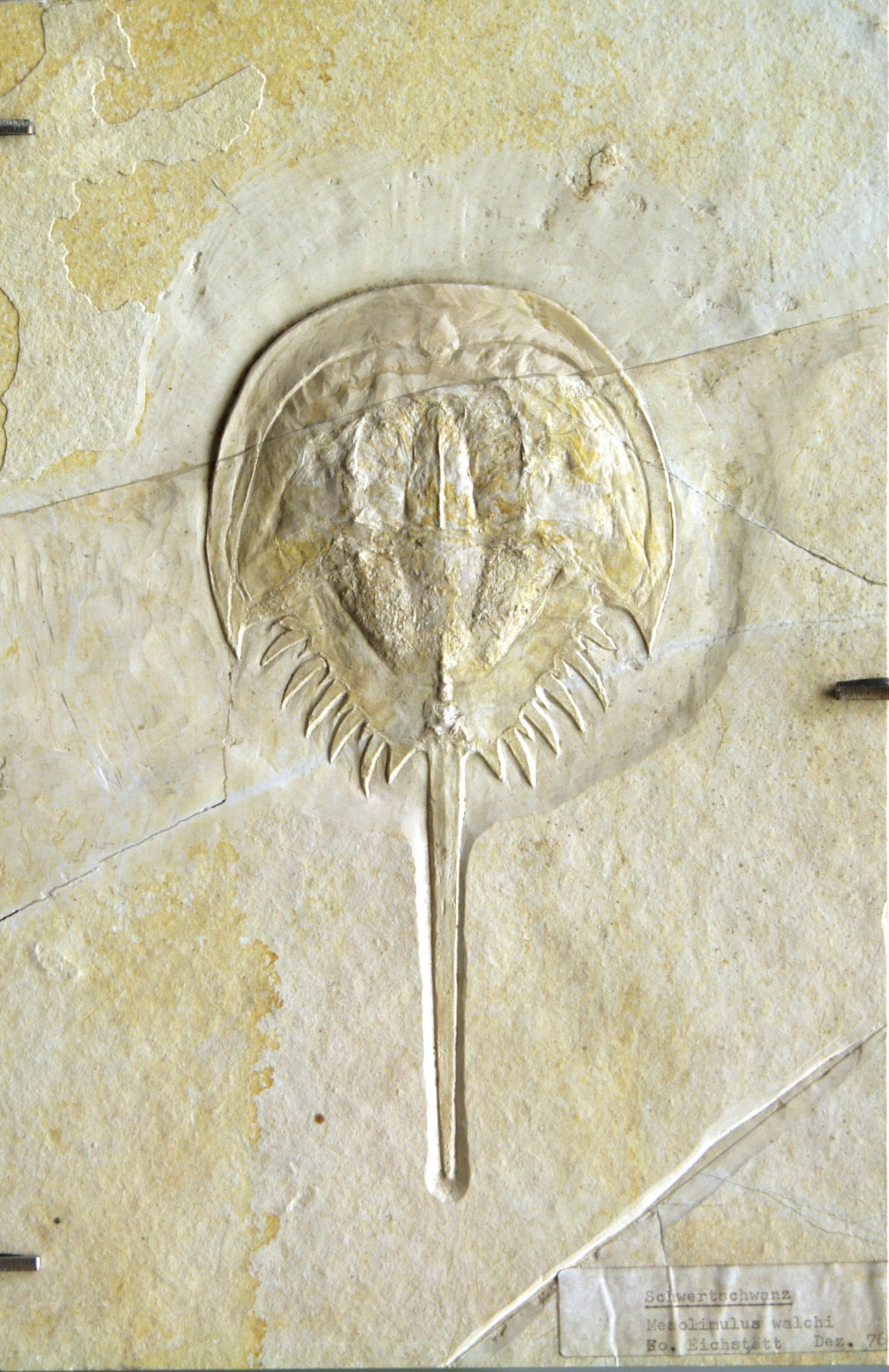 Fossil of a Limulidae - Mesolimulus walchi, Solnhofen. Museum für Naturkunde (Berlin).